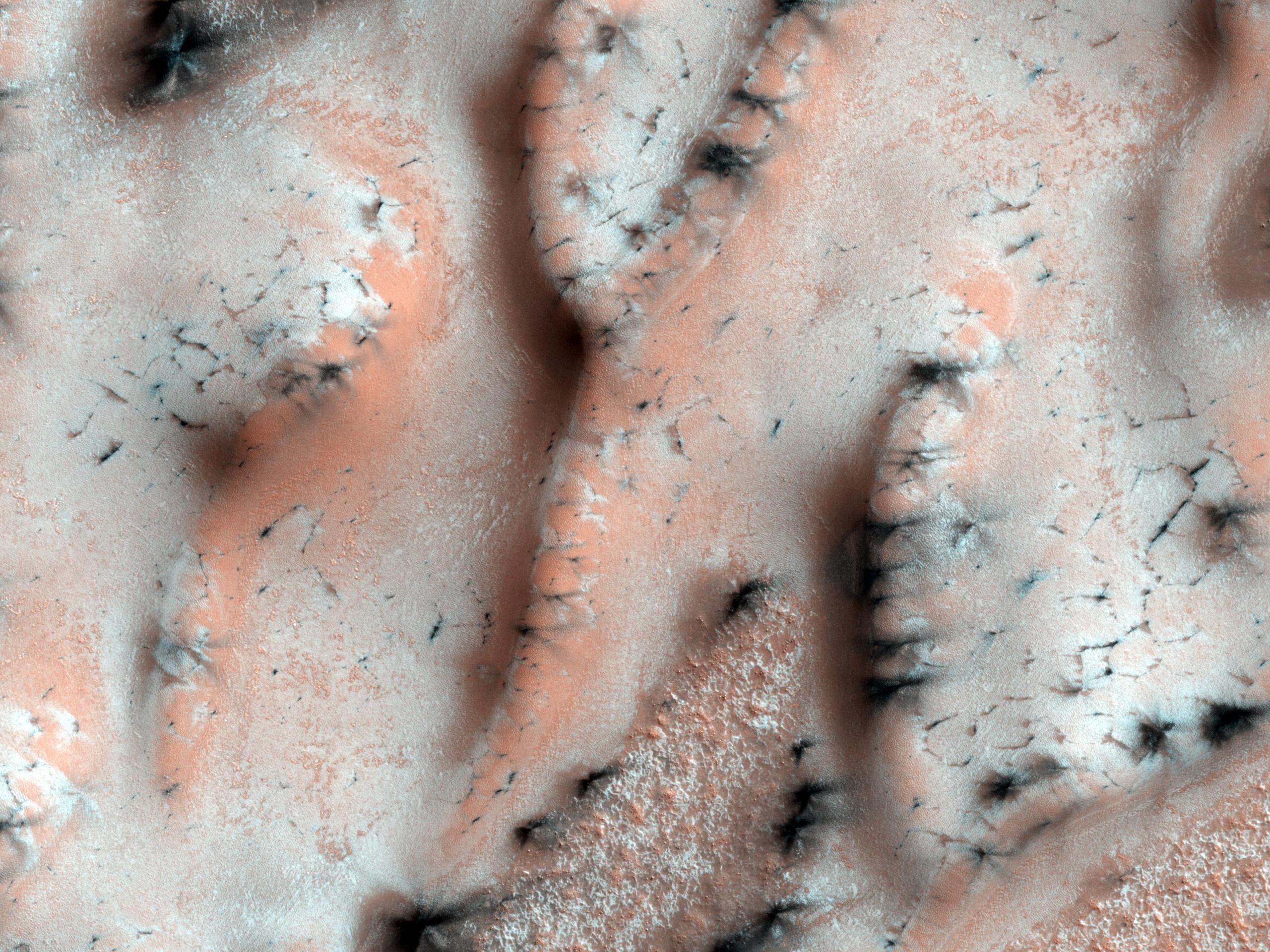 In spring, the sublimation of the ice (going directly from ice to gas) causes a host of uniquely Martian phenomena. In this image streaks of dark basaltic sand have been carried from below the ice layer to form fan-shaped deposits on top of the seasonal ice. The similarity in the directions of the fans suggests that they formed at the same time, when the wind direction and speed was the same. They often form along the boundary between the dune and the surface below.